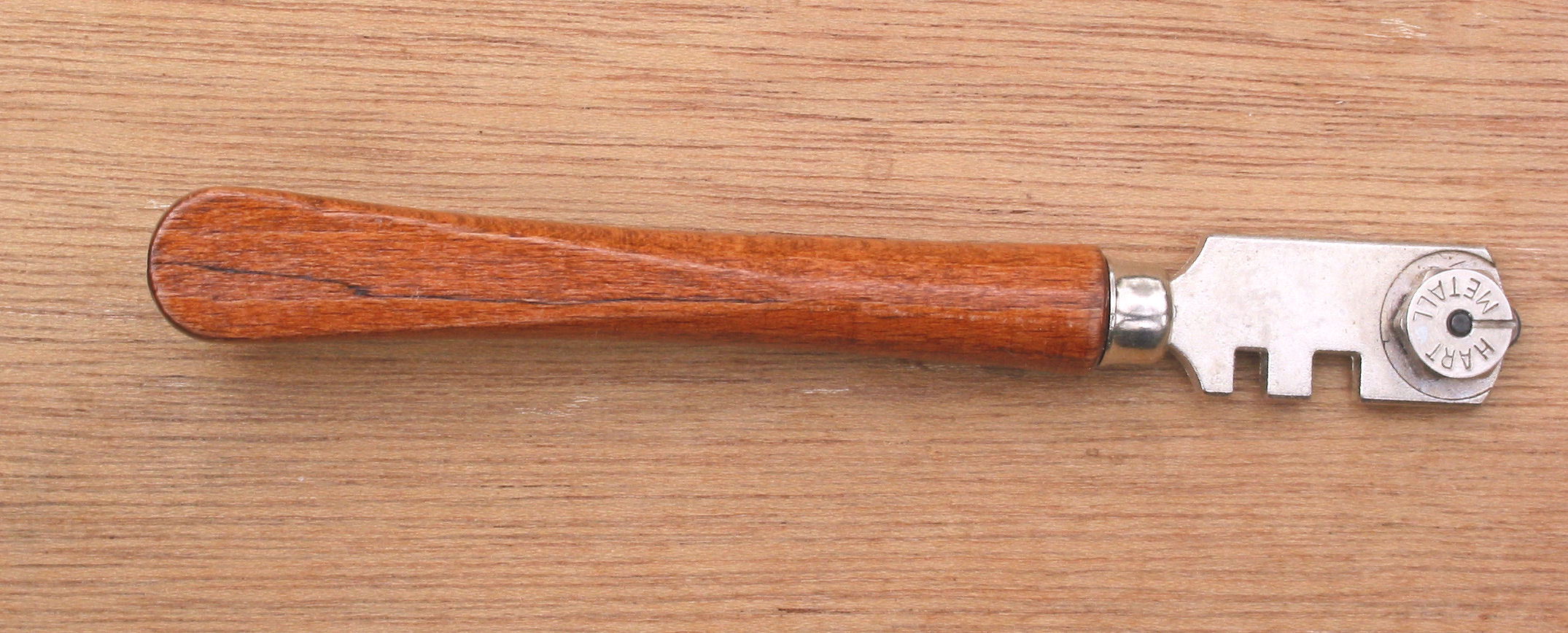 Glass cutter.